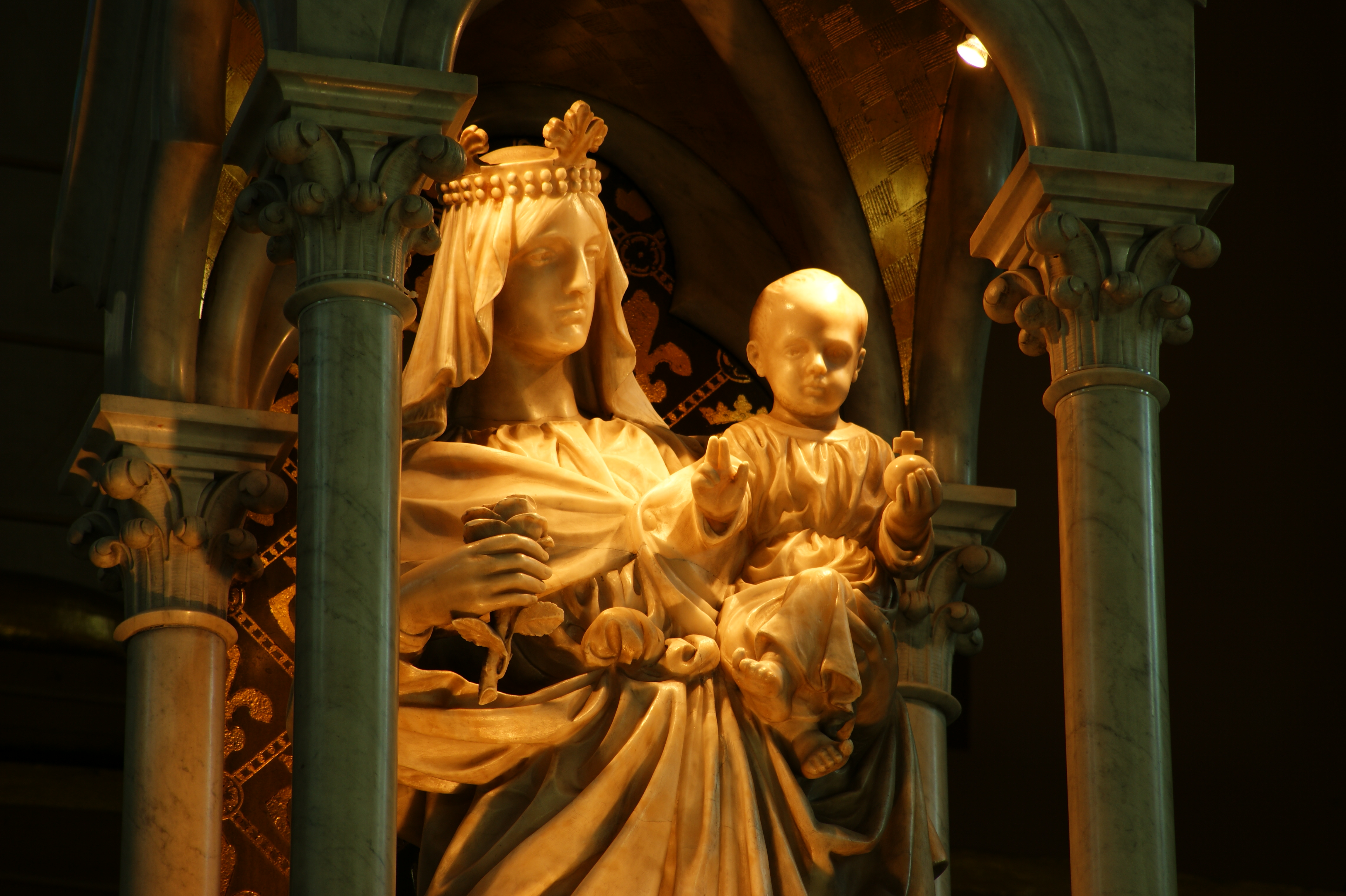 The main altar of St. Stanislaw Bishop church in Ostrow Wielkopolski.